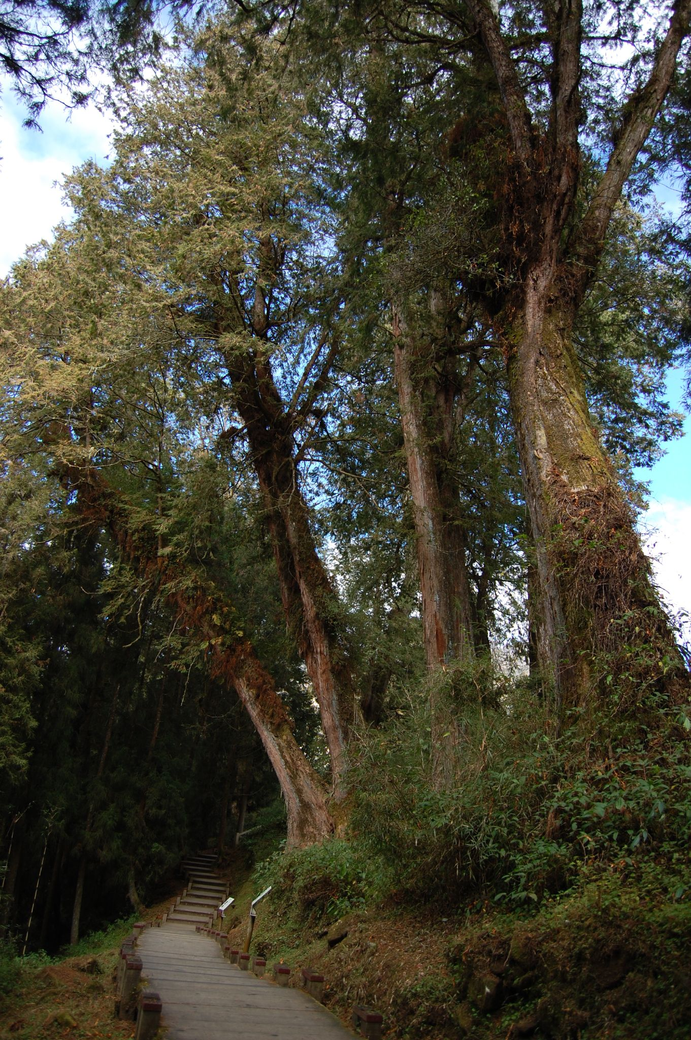 Four large Chamaecyparis formosensis trees, Alishan, Taiwan.